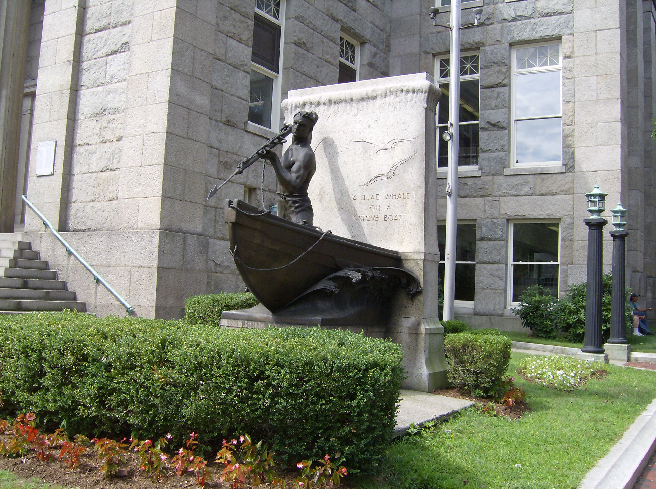 A statue of a whaler holding a harpoon, found in downtown New Bedford in front of the New Bedford Public Library. The text reads "A dead whale or a stove boat."